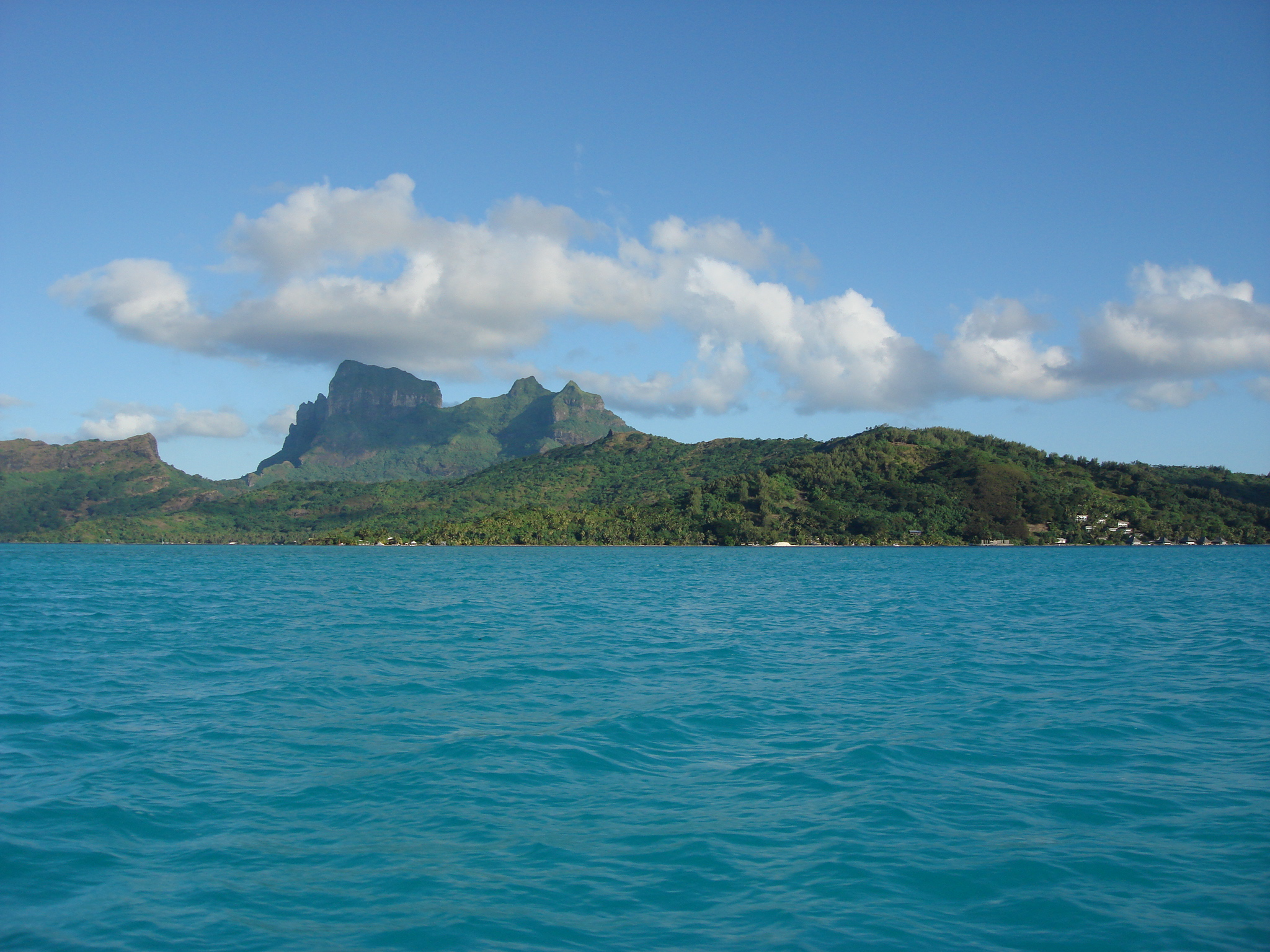 Bora Bora island (Hitiaa Bay).